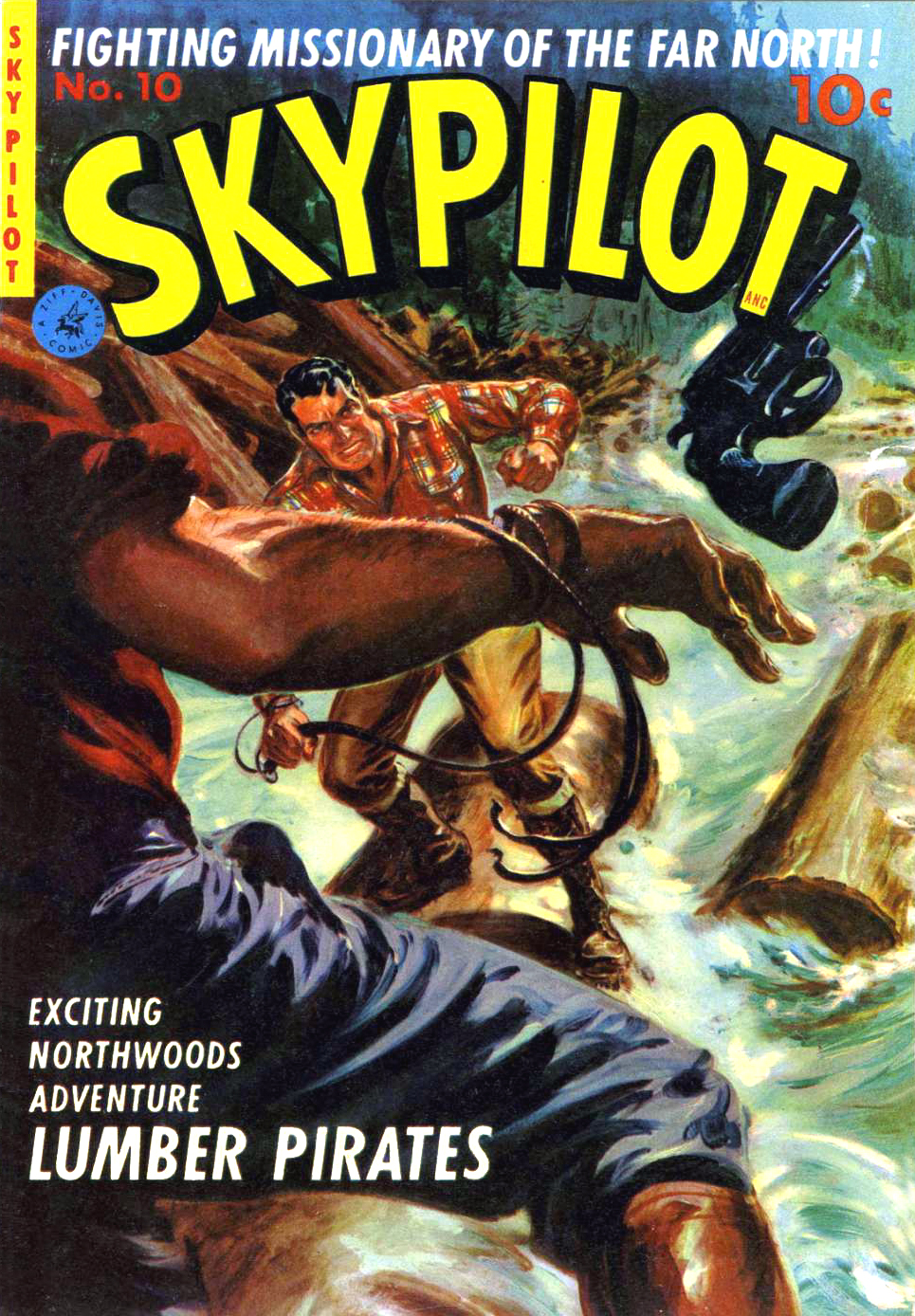 Painted cover of Skypilot, number 10, artwork by Norman Saunders. Skypilot was a short-lived adventure title published by Ziff Davis from November 1950 to May 1951. Saunders' richly painted cover recalls the pulp magazines of the 1930s and 40s.